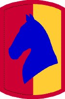 138th Field Artillery Brigade shoulder sleeve insignia